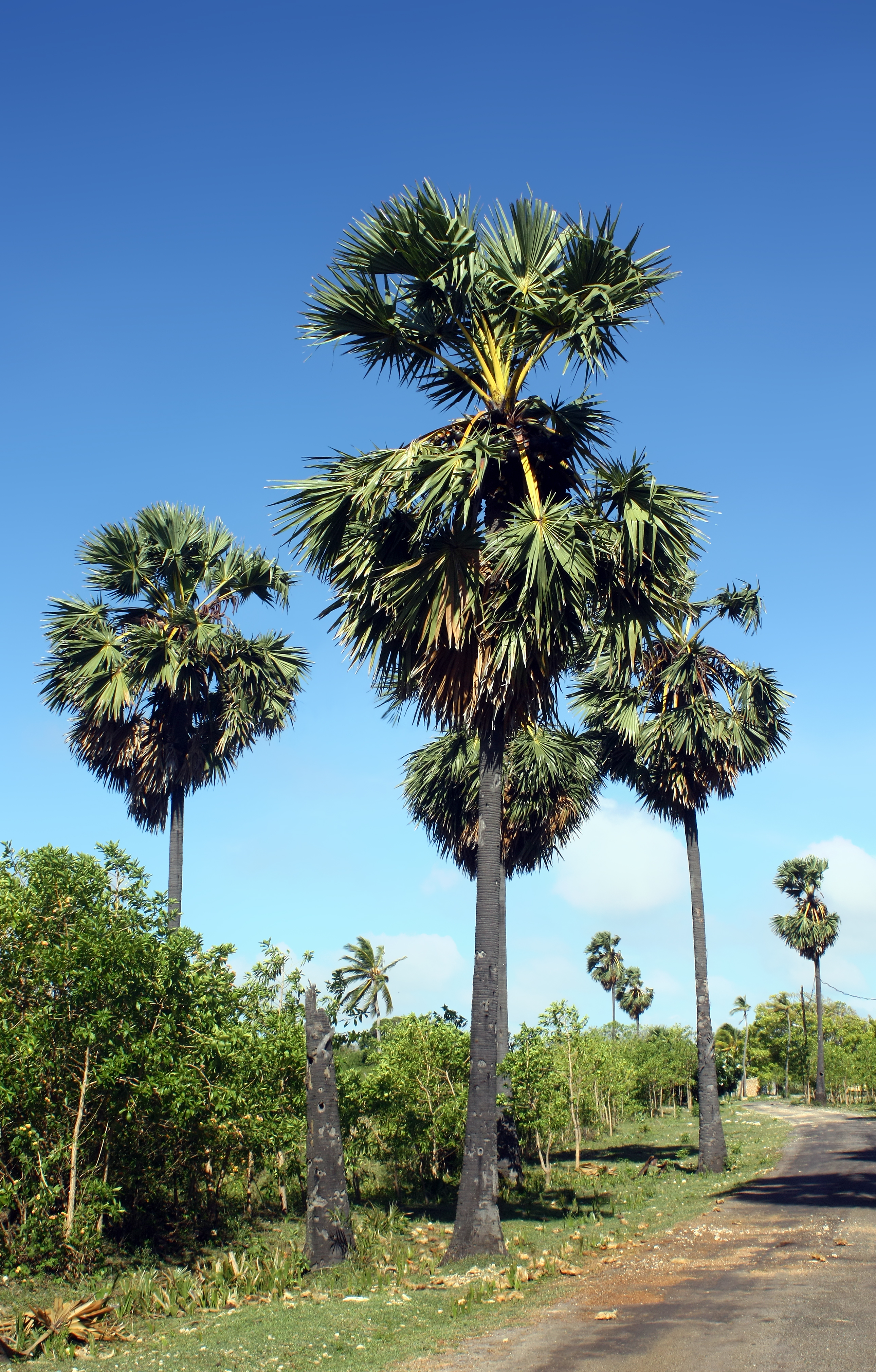 Asian palmyra (Borassus flabellifer) in Jaffna, Sri Lanka.